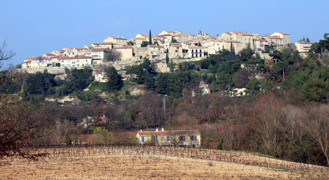 Village of Grambois in Vaucluse, France